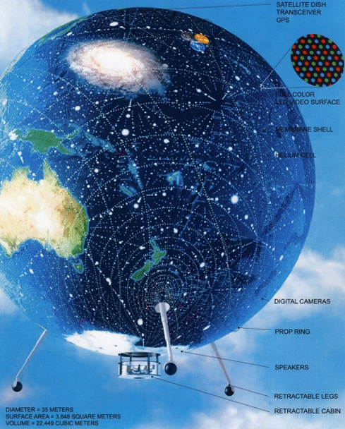 "Air Genie," illustration by Tom Shannon